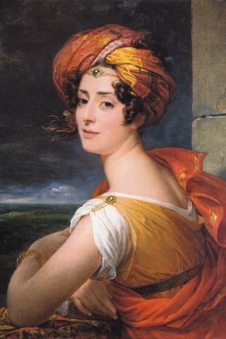 Adrienne Hervé Louise de Carbonnel de Canisy, duchesse de Vicence (1785-1876)